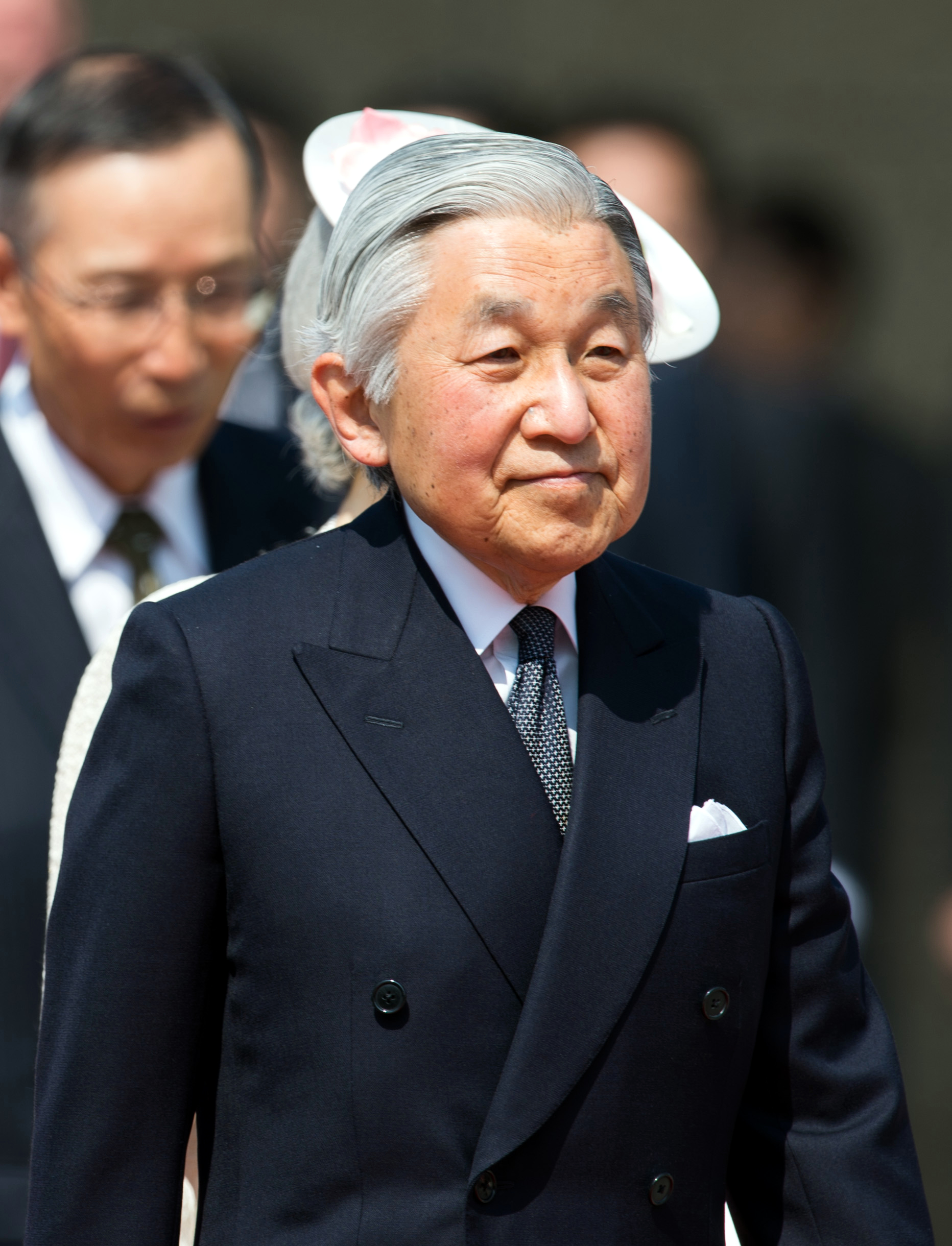 Barack Obama, President, met Emperor Akihito at the Tokyo Imperial Palace in Chiyoda Ward, Tōkyō Metropolis on April 24, 2014.